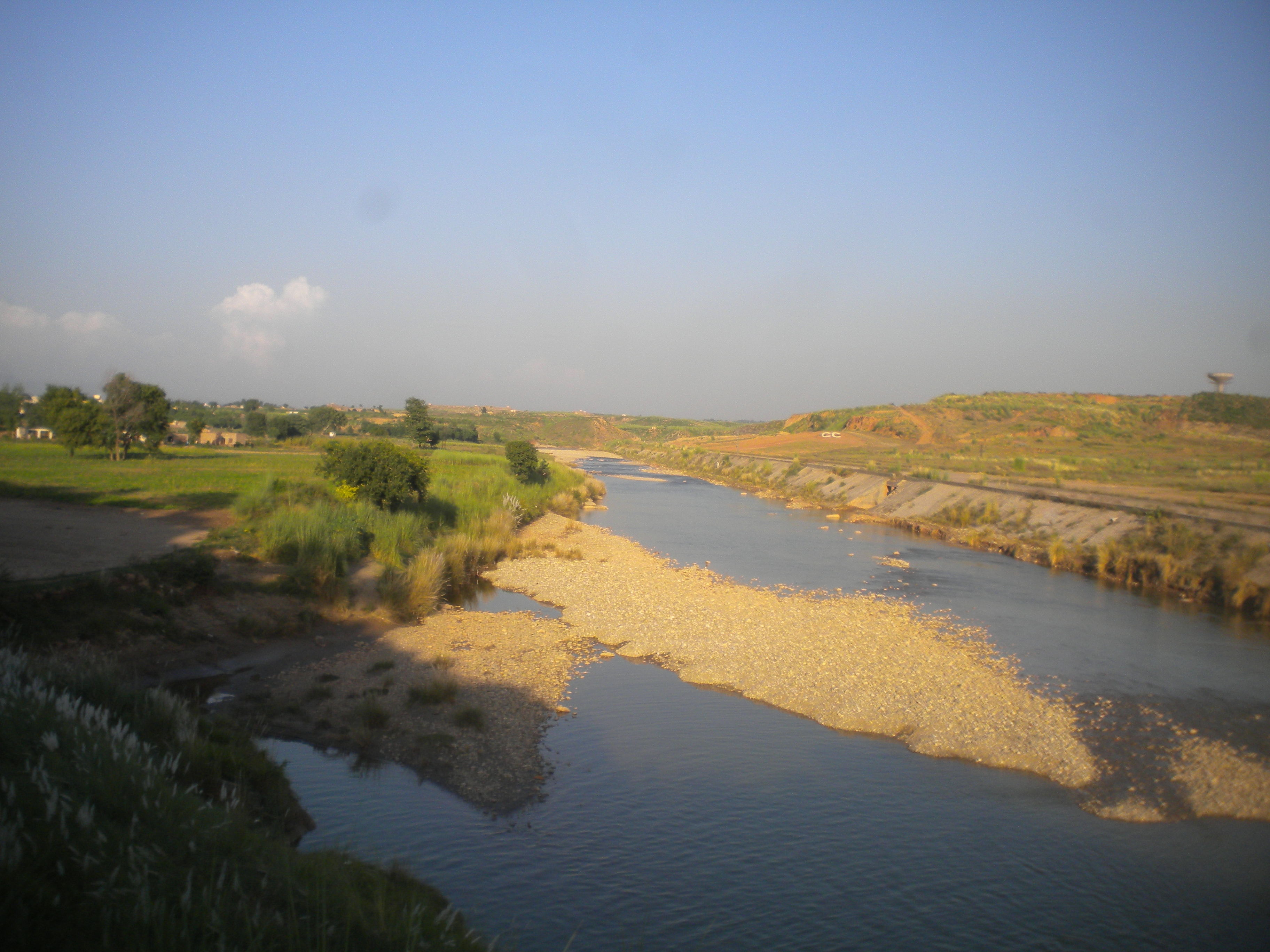 Ling beside a village